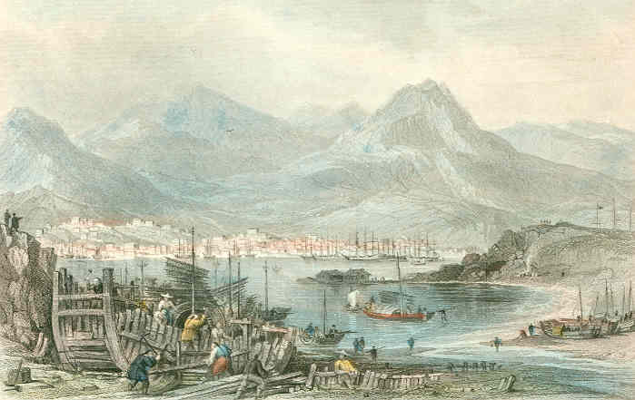 View of Hong Kong Island from Kowloon